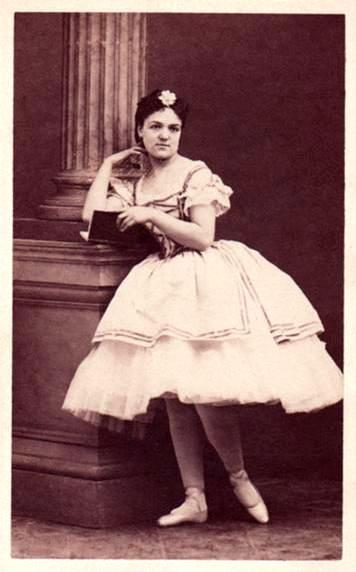 A photograph of Marie Sanlaville (1846-1930), a principal ballerina at the Paris Opera